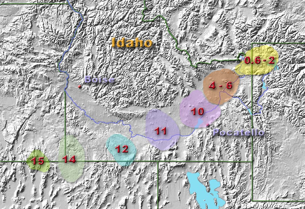 Location of Yellowstone Hotspot in Millions of Years Ago